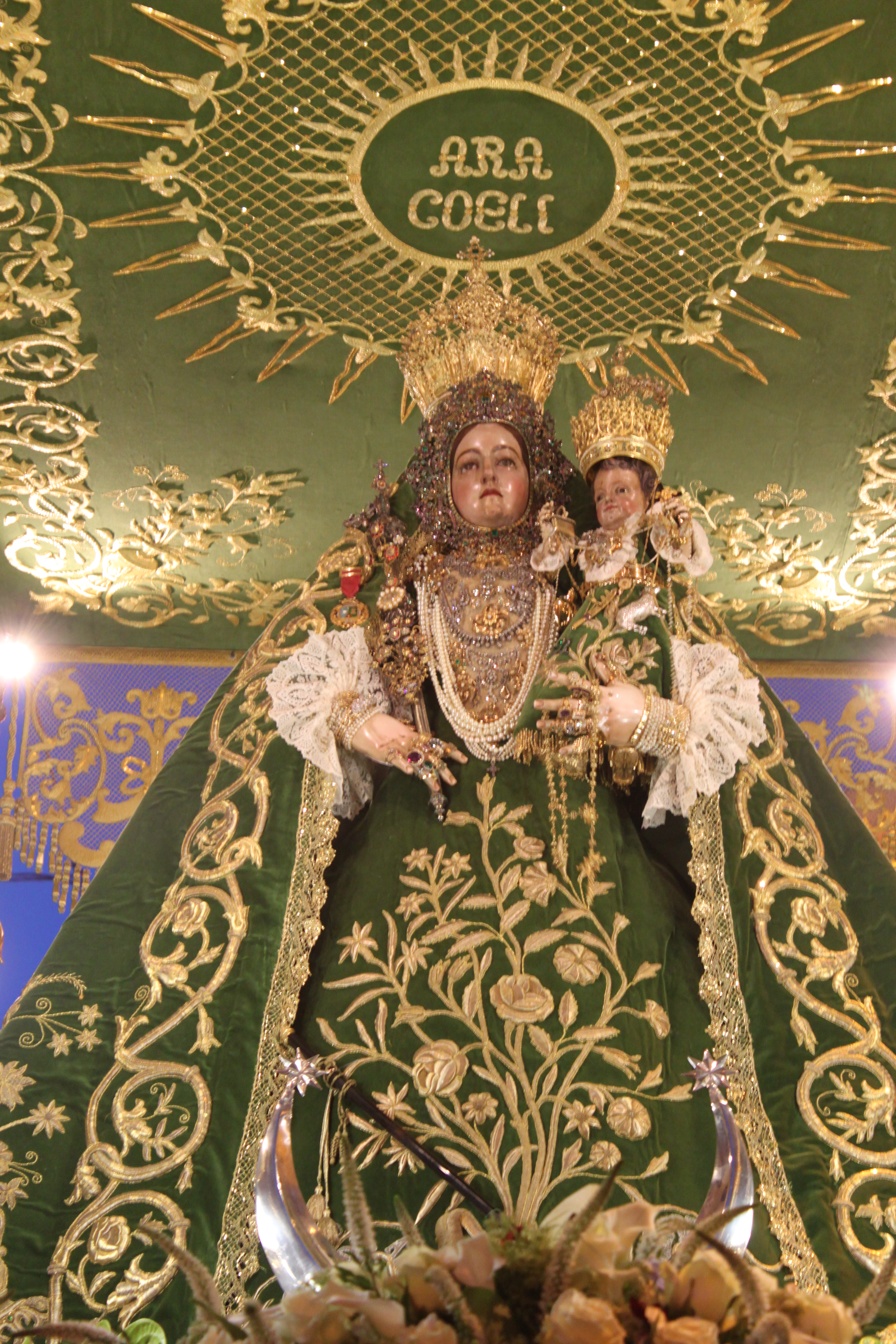 Our Lady of Araceli, of Lucena (Spain), at the procession of her festivity, on the 1st Sunday of May. 450th anniversary of her coming to Lucena from Rome.